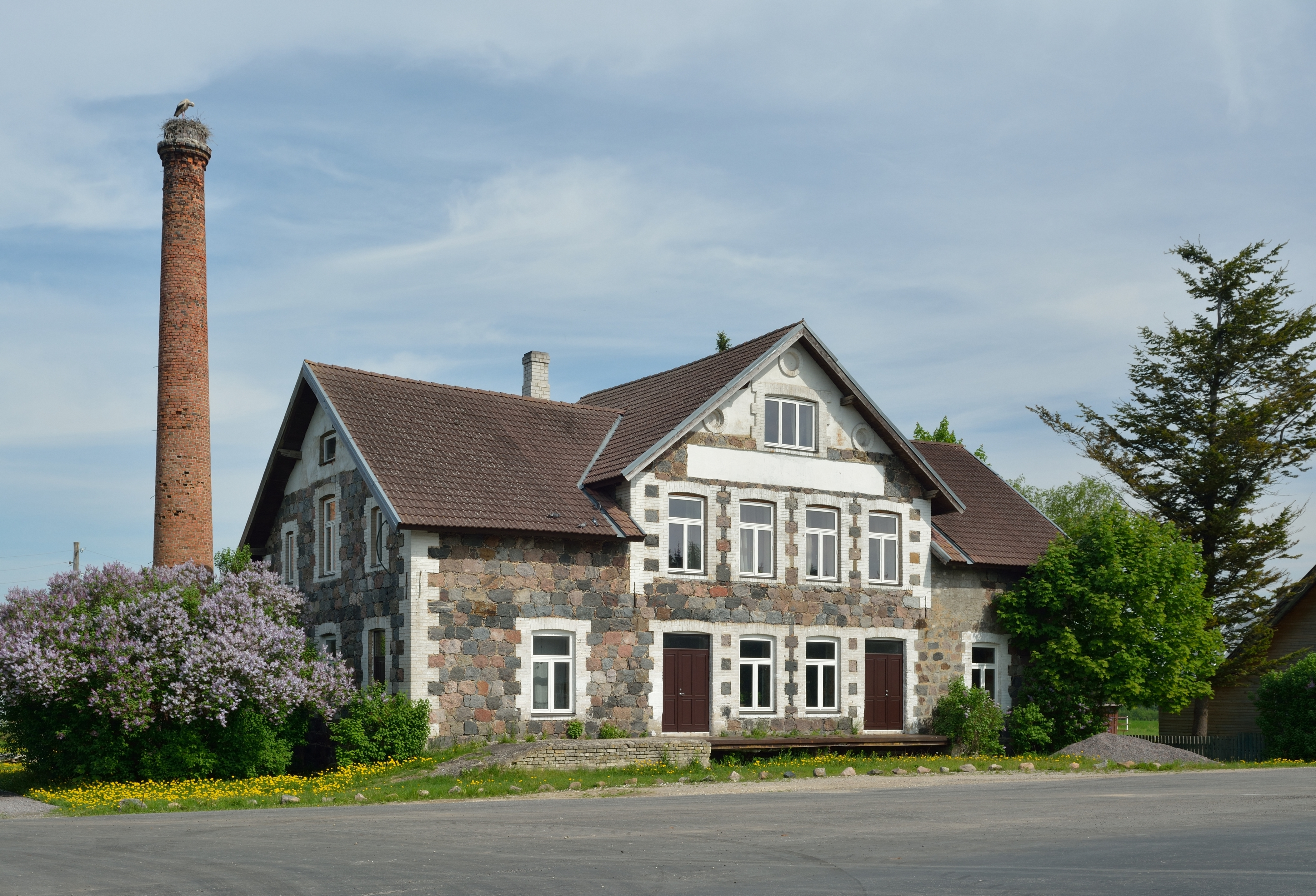 Former Äksi dairy, built ca 1914